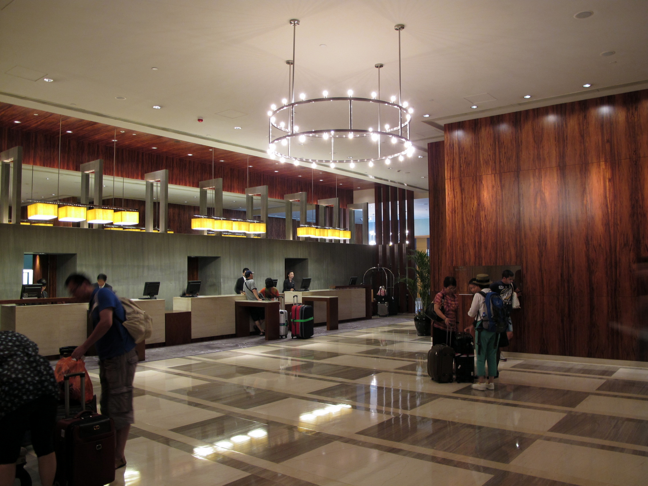 Hyatt Regency Hong Kong Level M Lobby